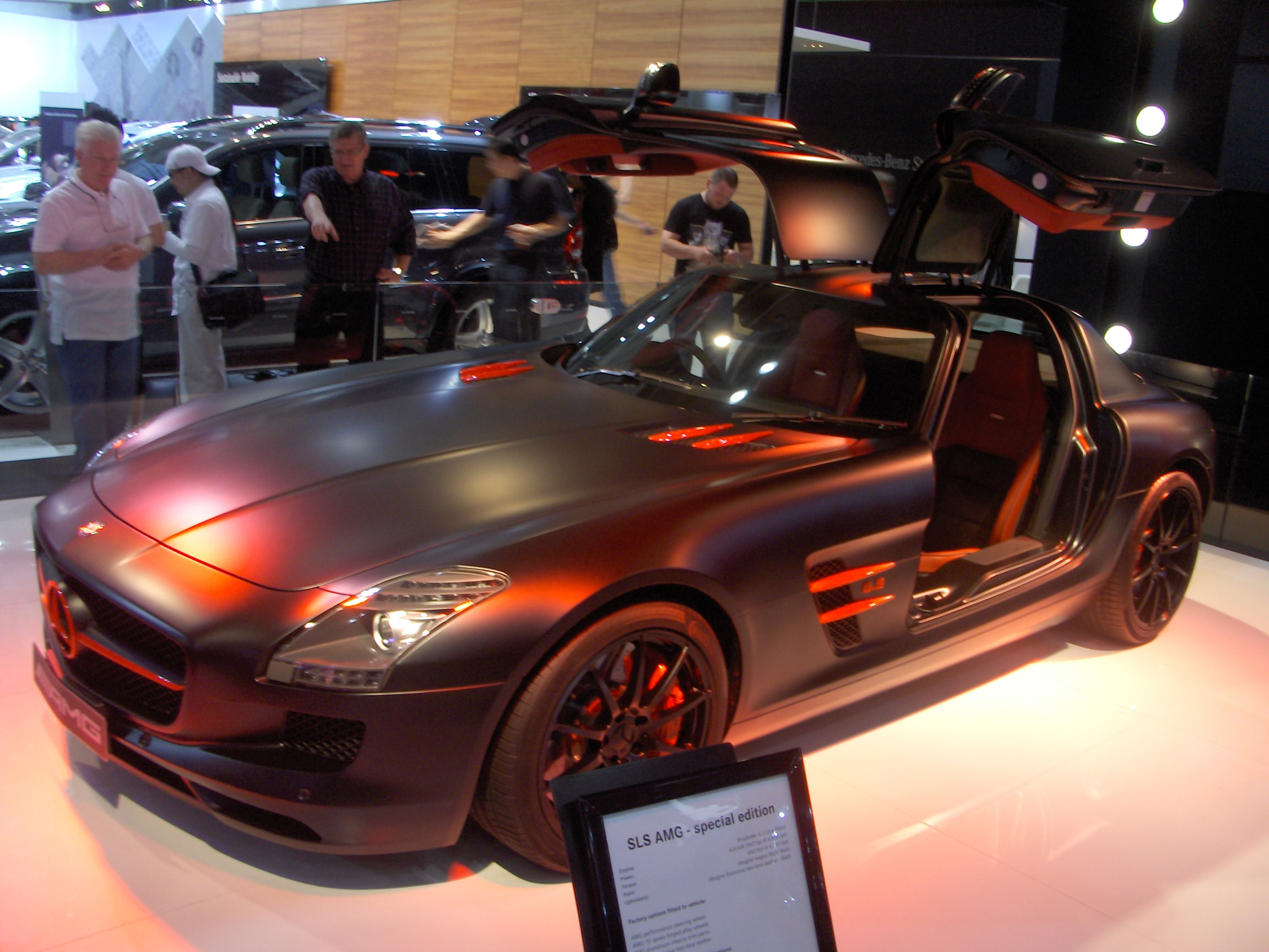 2010 Mercedes-Benz SLS AMG (C 197) Blackbird coupe. Photographed at the 2010 Australian International Motor Show, Sydney, New South Wales, Australia.